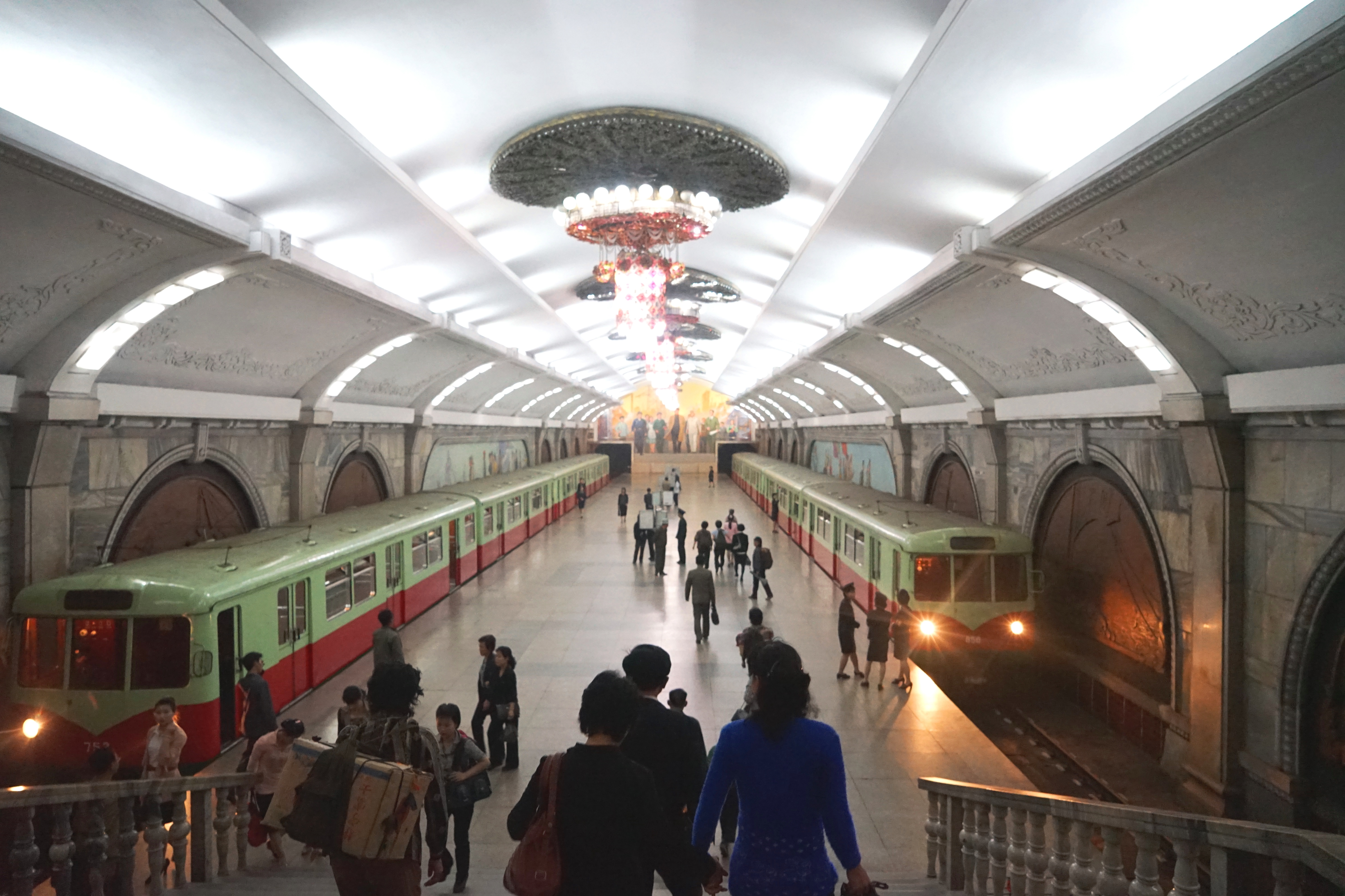 Pyongyang metro